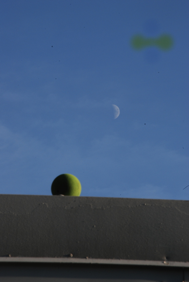 This is a montage inspired by this work of Don Davis. It is a combination of File:A ball and the moon.JPG by myself and File:Haidinger's brush.jpg by Daniel P.B. Smith